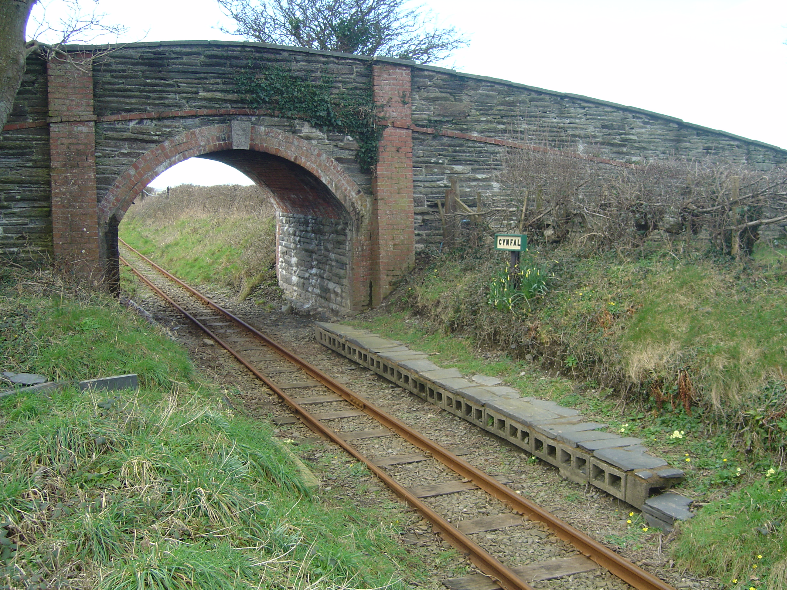 Talyllyn Railway: Cynfal station